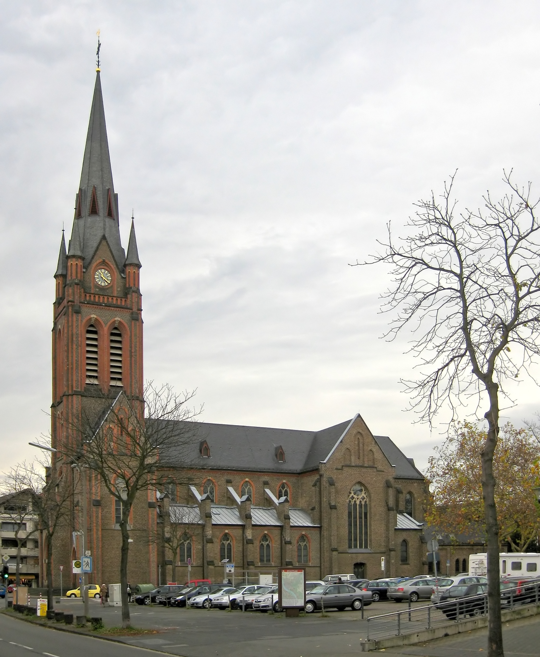 catholic church "Sankt Josef"/"Saint Josef" in germany, Bonn-Beuel.